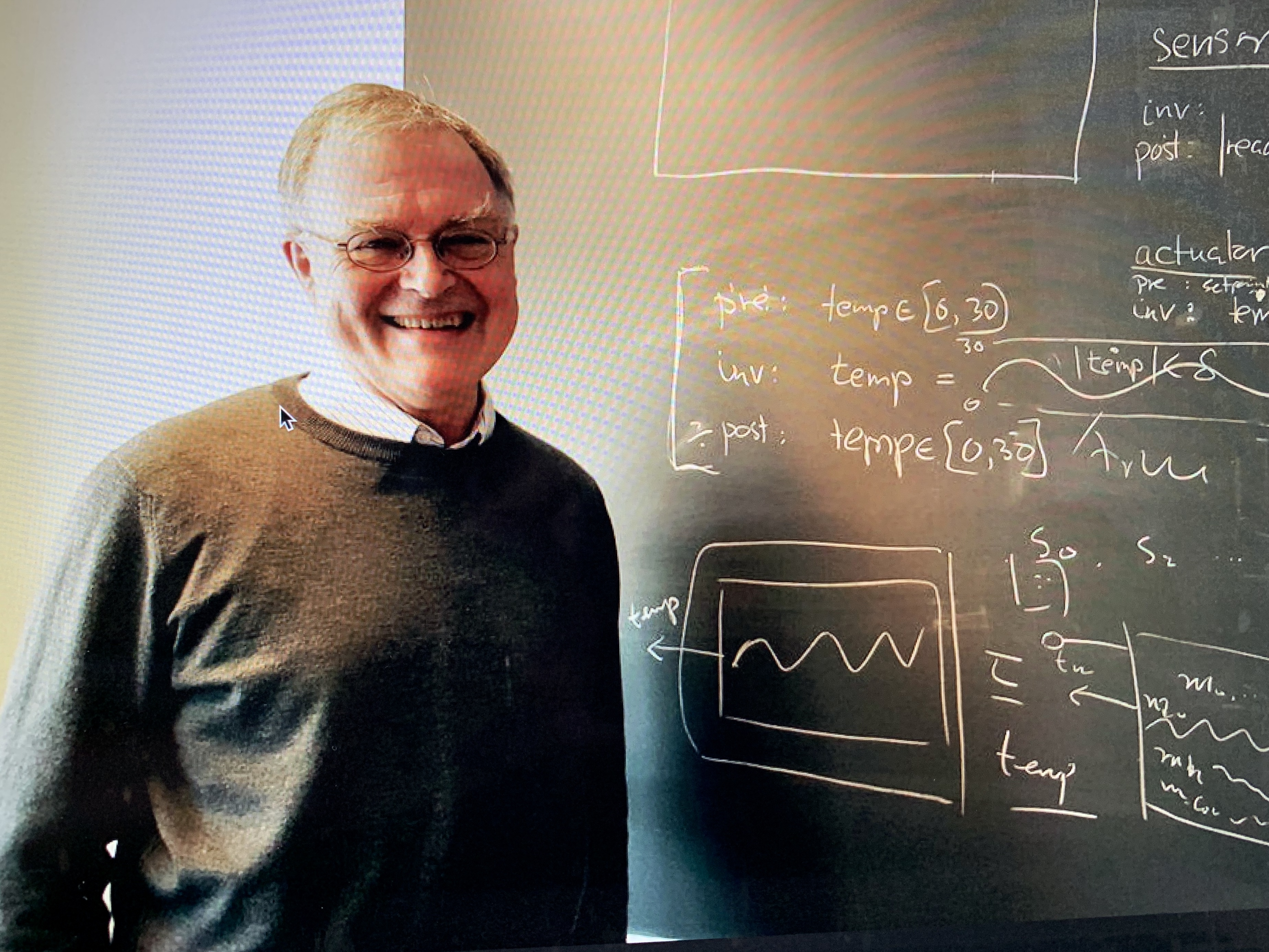 Prof., Dr.techn. Anders Peter Ravn [1947-2019]